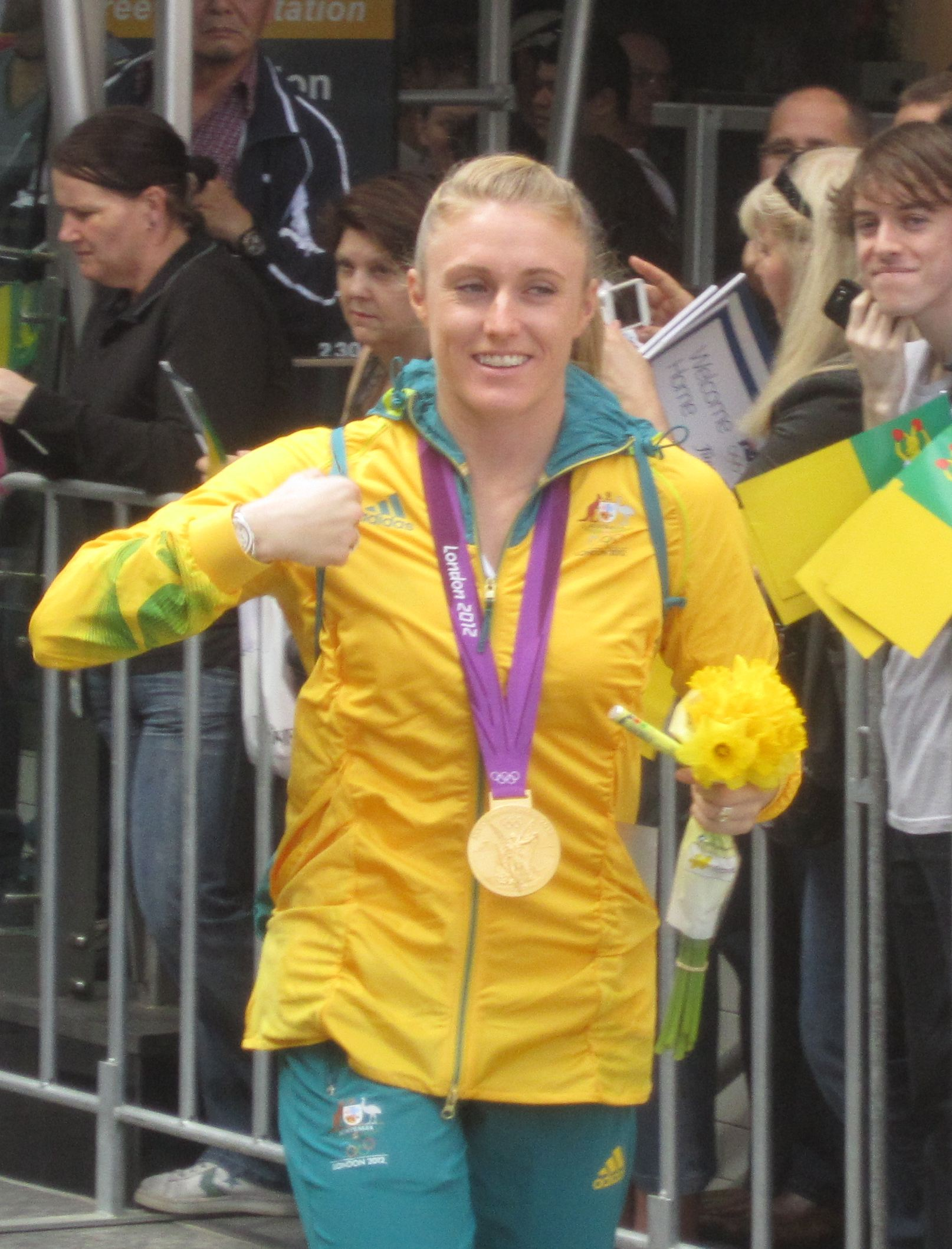 Australian Olympic medallist Sally Pearson at the Brisbane 2012 Olympic Homecoming Parade